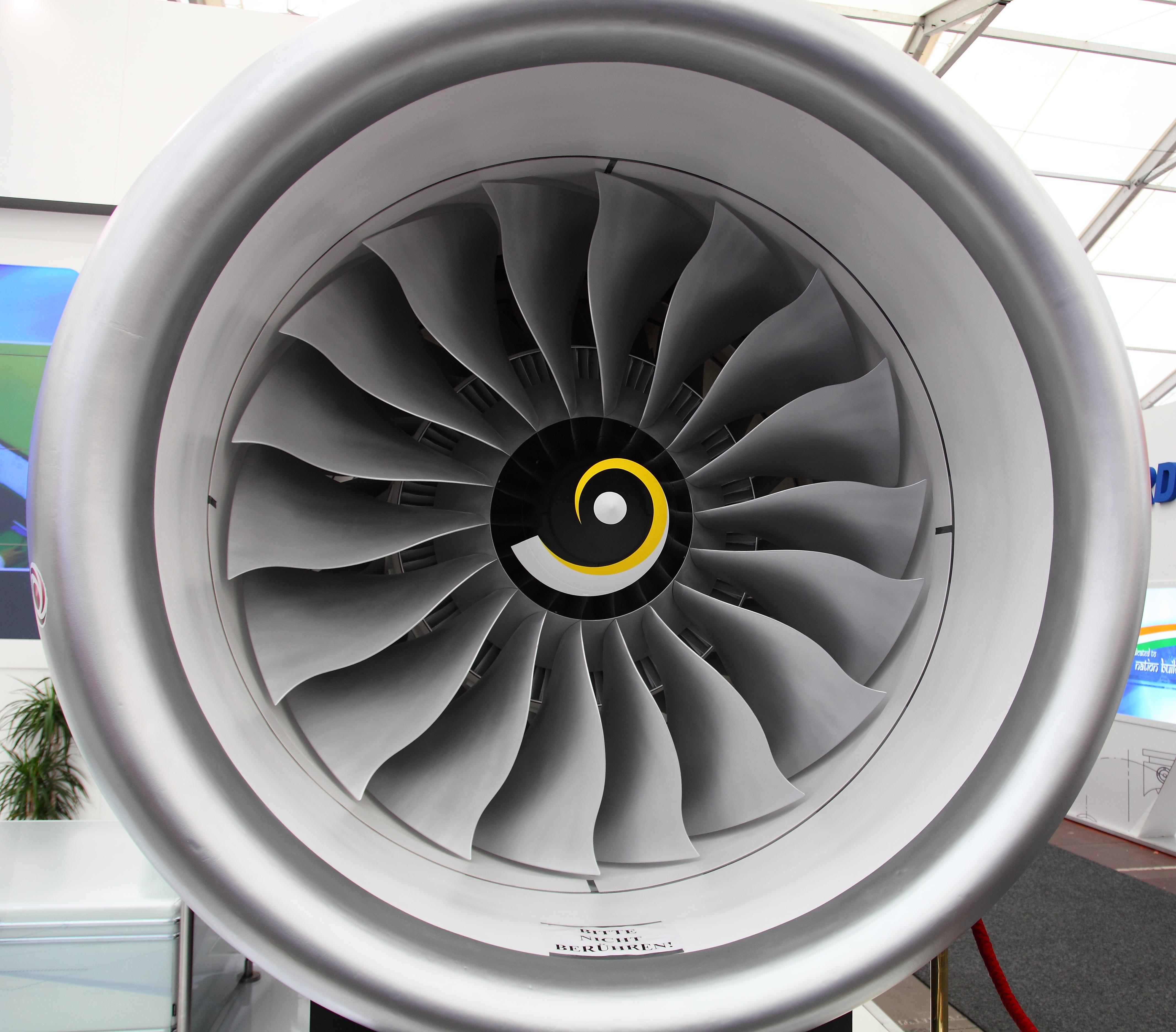 Aviadvigatel PD-14 turbofan engine at the ILA Air Show 2012 in Berlin.